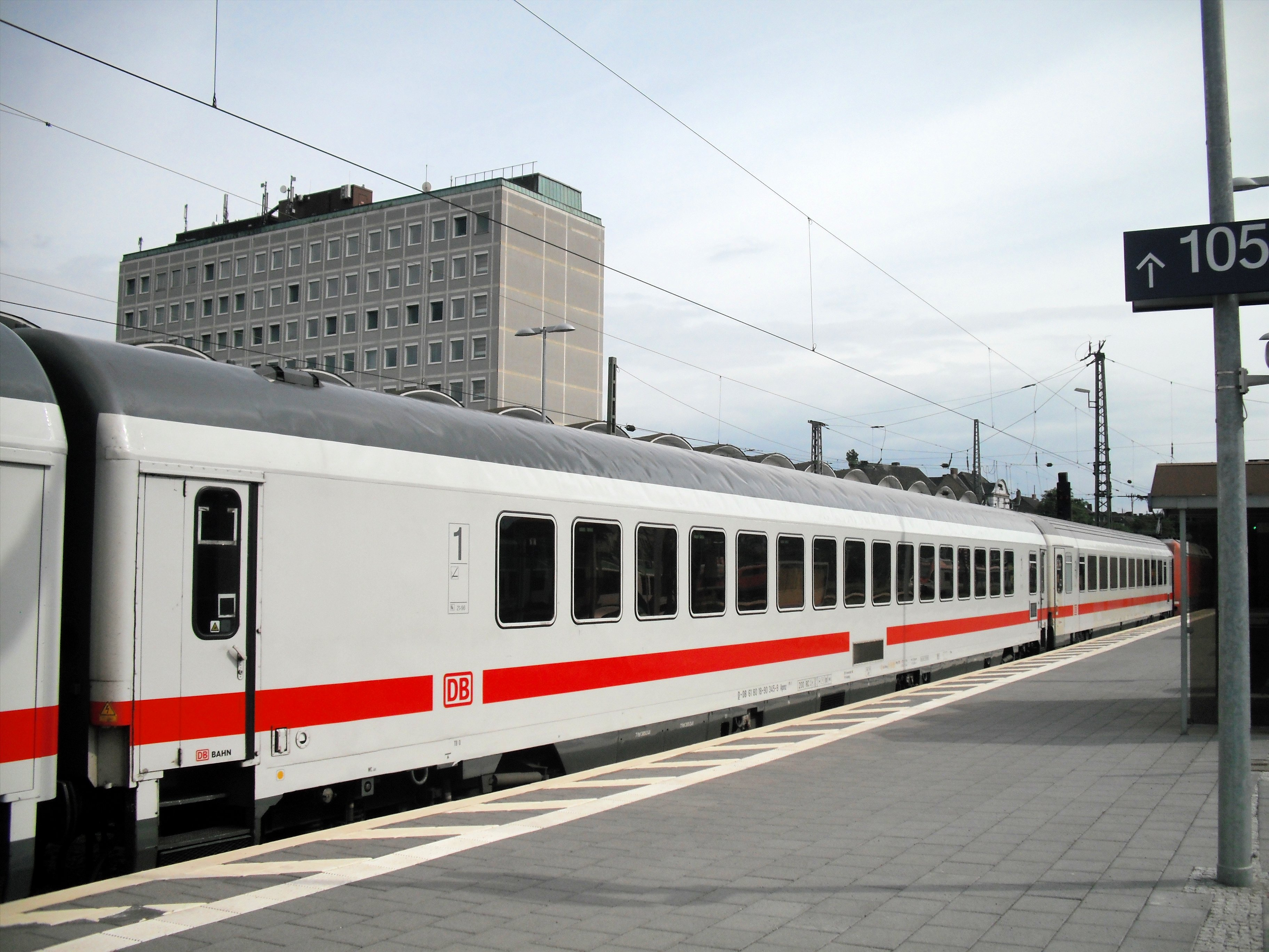 DB first class coach at Koblenz Hbf